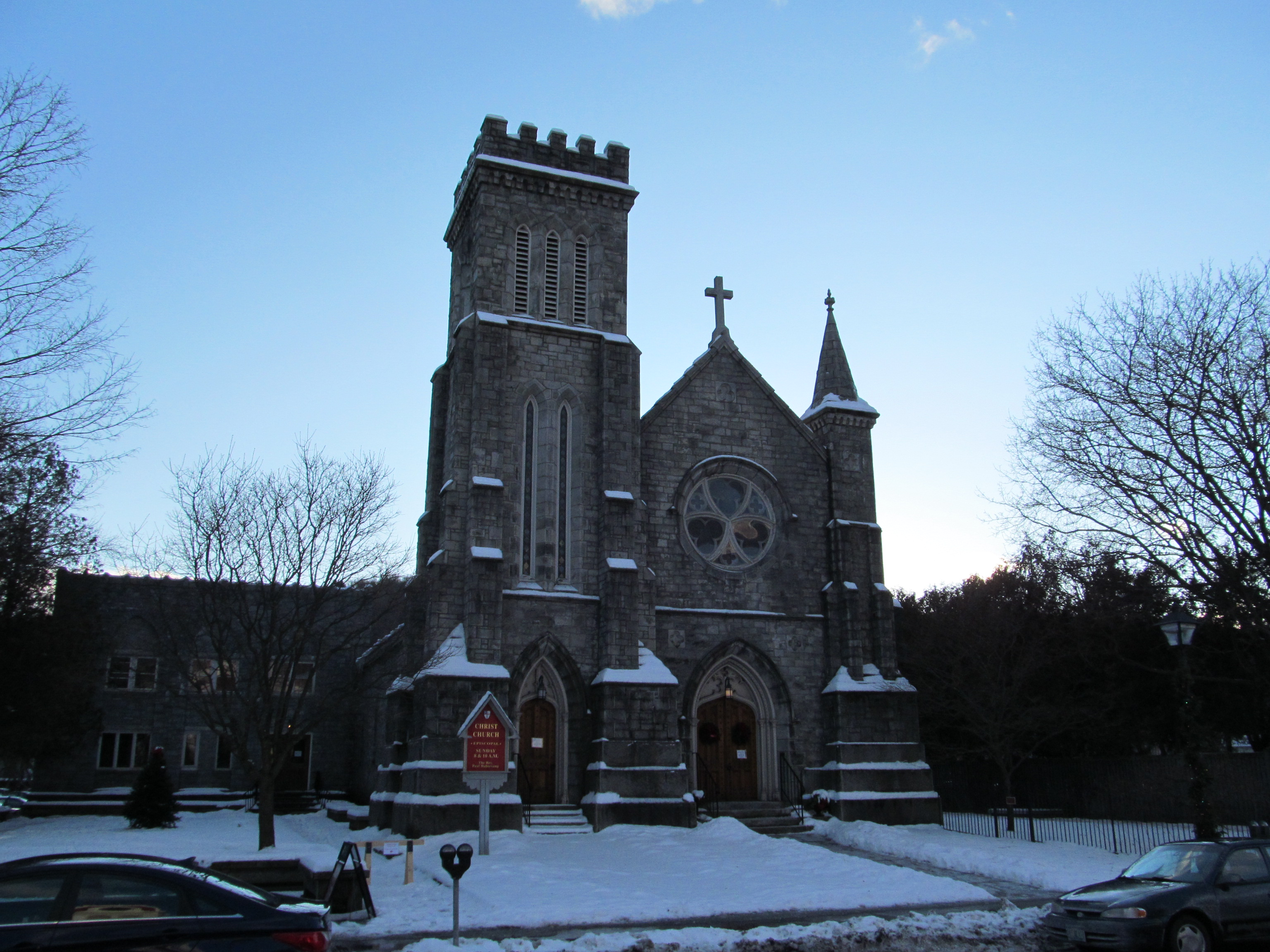 Christ Church, Episcopal, Montpelier Vermont